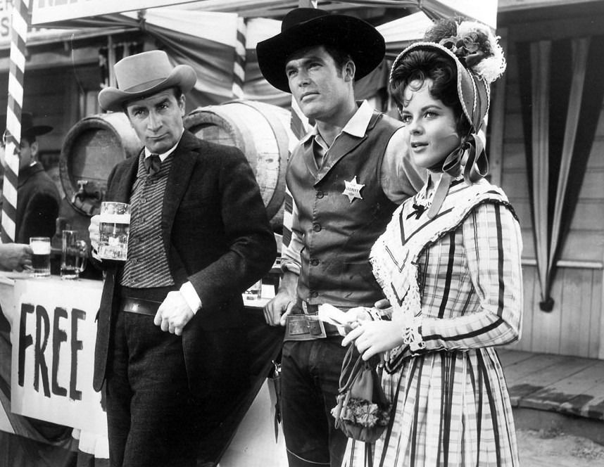 Photo of John Beradino (Ross Kinkaid), Ty Hardin (Bronco Layne) and Anne Helm (Amanda Layne, Bronco's cousin from Atlanta) from the television program The Cheyenne Show.